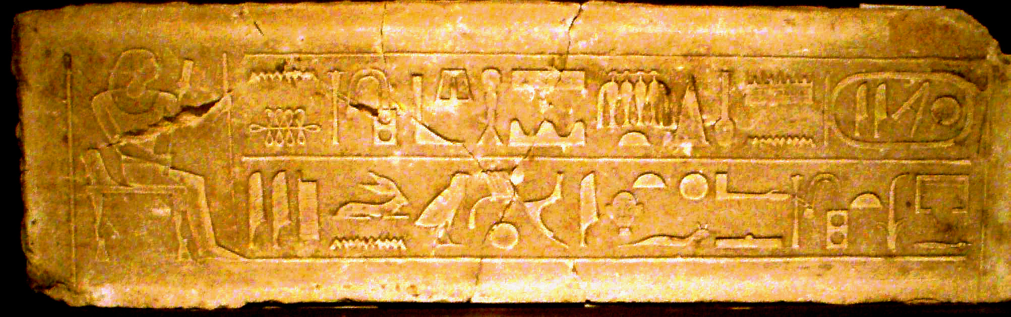 Stone relief of Weni with the name of the pyramid of Pepi I : Men-Nefer-Merira. Dating to the time of the Old Kingdom.